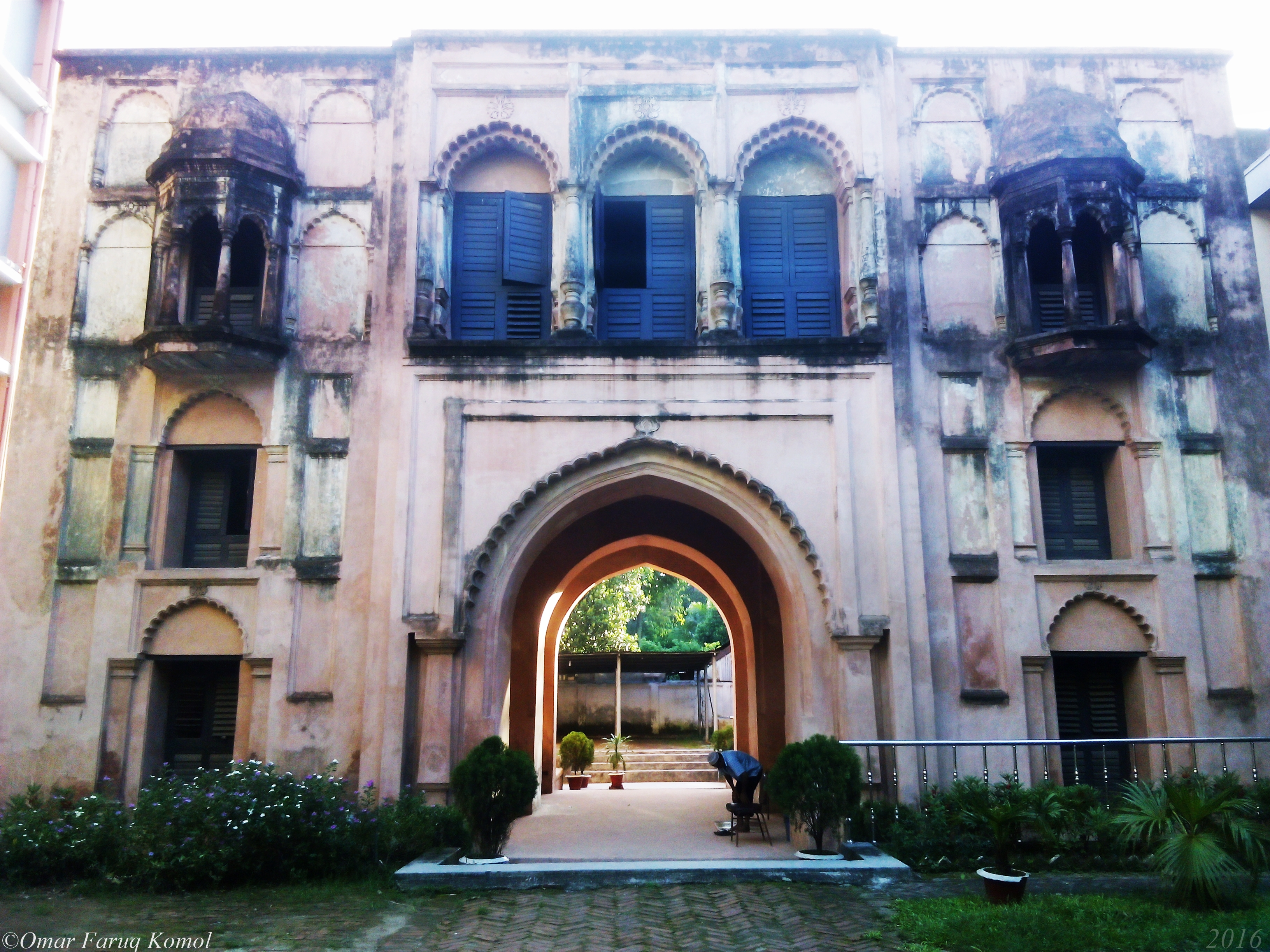 ঢাকার একটি ঐতিহাসিক নিদর্শন।